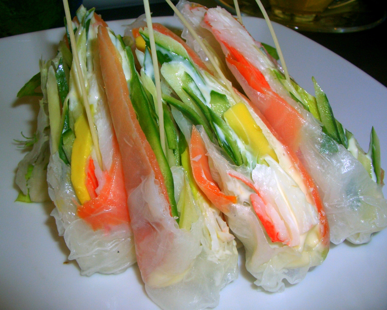 Smoked salmon wrapped in rice paper, with avocado, cucumber, and crab stick. Fusion Food.